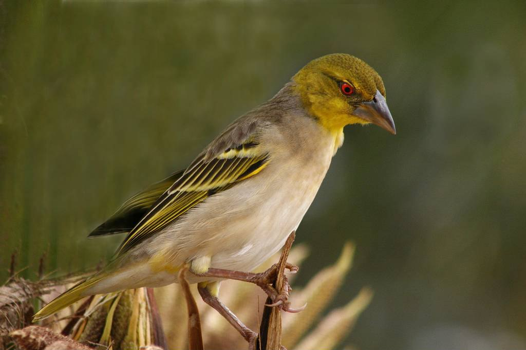 An adult male Village Weaver in The Gambia. It is in non-breeding plumage.